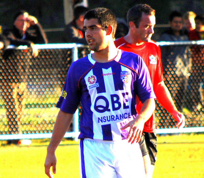 Andrija Jukic getting some game time for Perth Glory in a pre-season match against West Australian State League side Armadale FC